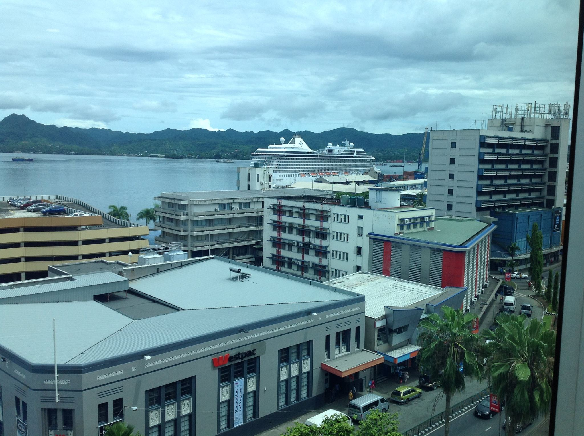 Westpac Building, Post Office & Ganilau House towards Suva Wharf. Lami & Bay of Islands in the background